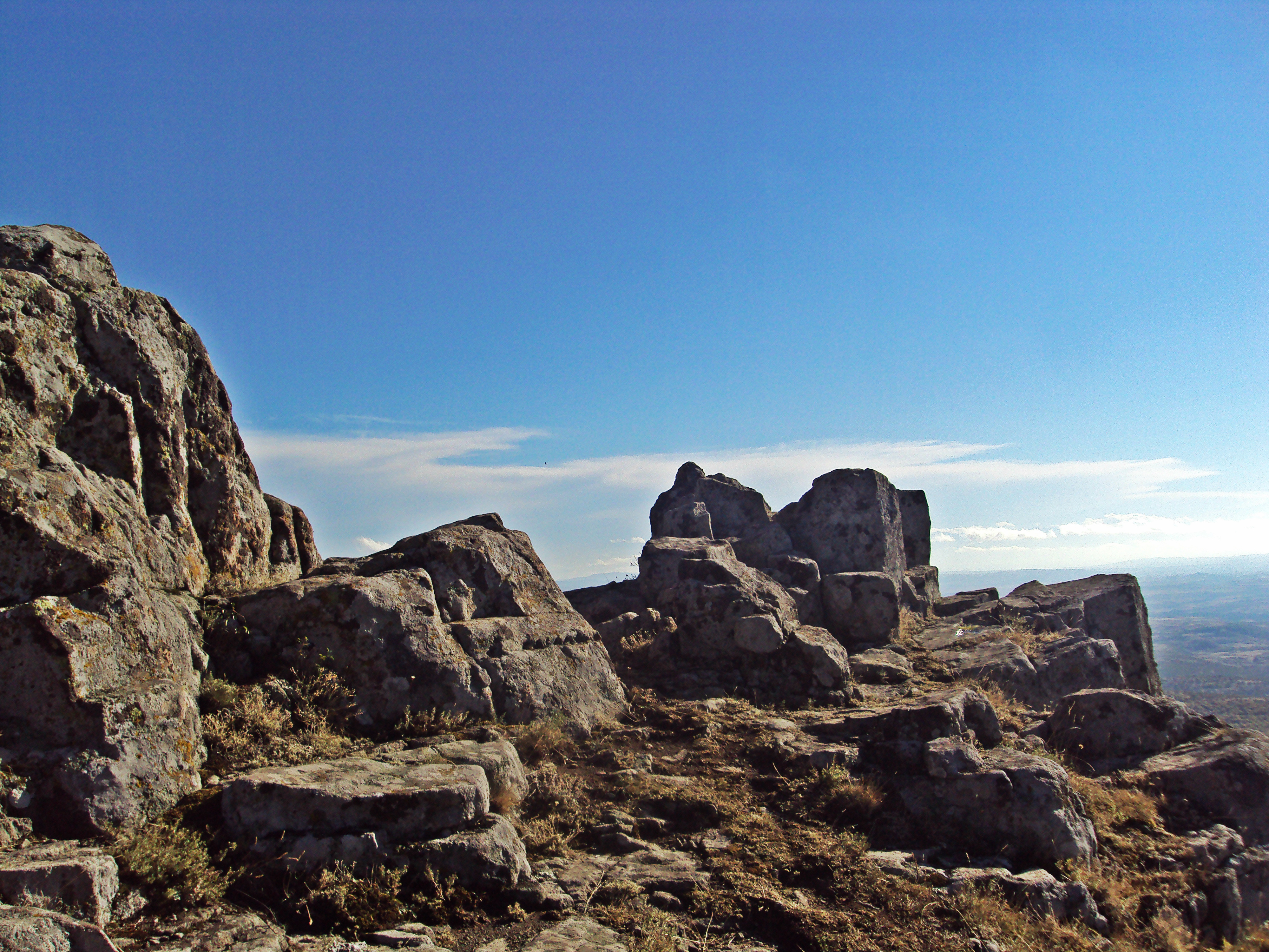 Archaeo-astronomical Site Kokino